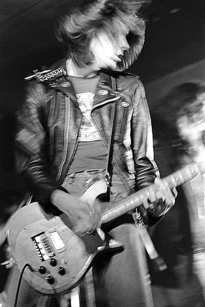 Johnny Ramone live with The Ramones July 1, 1977 in Kelly's Pub, St. Paul, MN